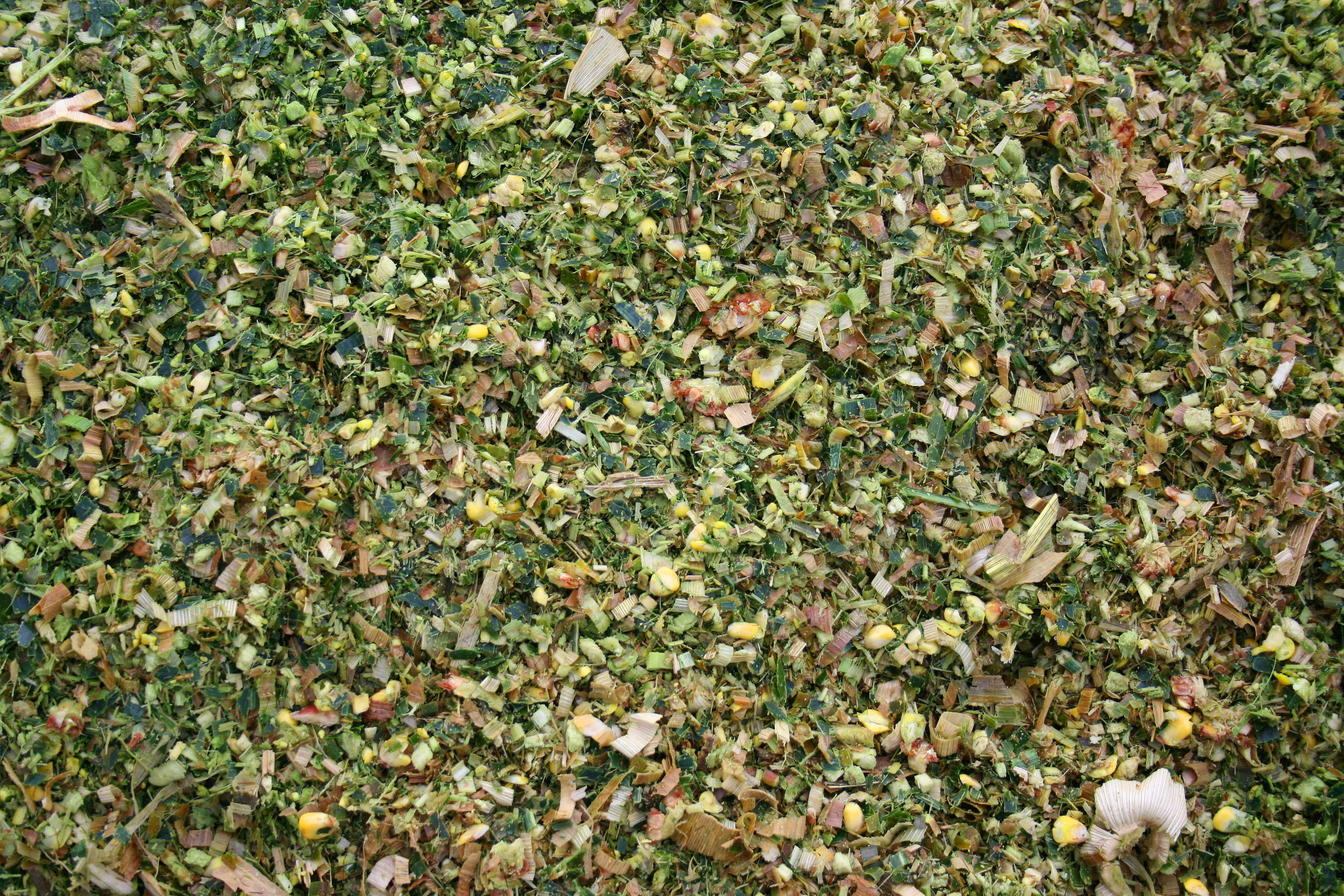 Maize silage in Sonsbeck, making silage of shreddered maize plants in order to have fodder in winter.